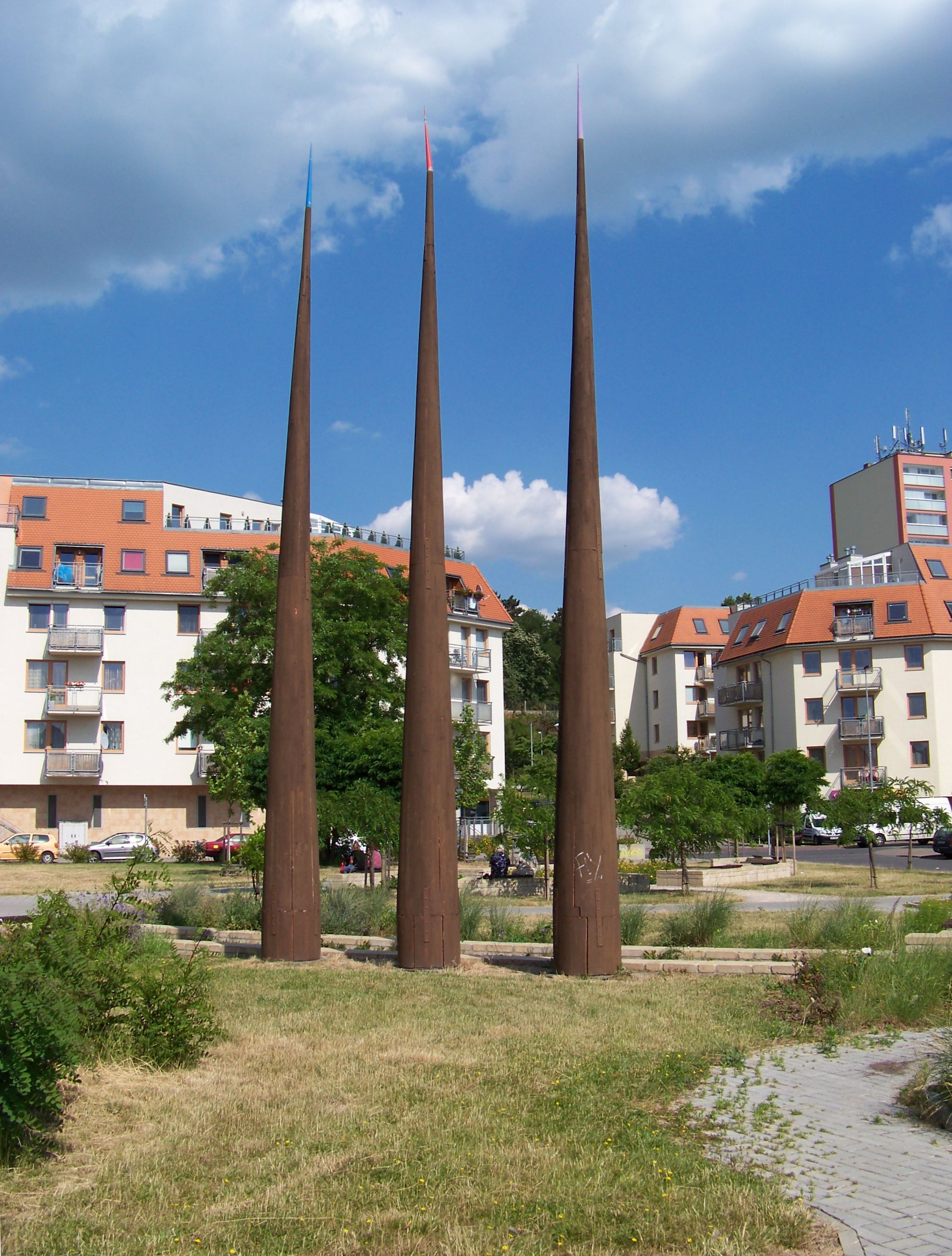 Prague-Modřany, Czech Republic. Central Park.